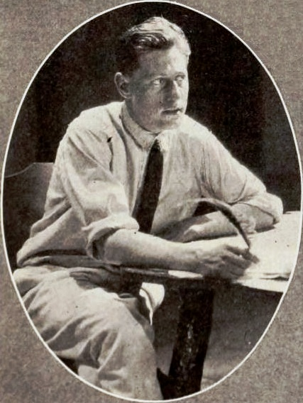 American screenwriter and director Sig Herzig, on page 68 of the September 10, 1921 Exhibitors Herald.